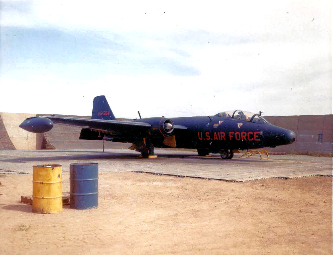 Martin B-57E-MA 55-4237 Da Nang AB South Vietnam 3/4 front view at Da Nang AB, South Vietnam, in January 1964. Aircraft was originally B-57E (S/N 55-4264). This aircraft was lost on Oct. 25, 1968. (U.S. Air Force photo)